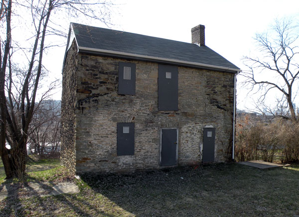 Picture of the John Woods House located at 4604 Monongahela Street in the Hazelwood neighborhood of Pittsburgh, Pennsylvania, on March 20, 2010. This vernacular style stone house was built in 1792, and is listed on the National Register of Historic Places. John Woods (1761-1816) was a political leader, a Federalist, and a member of a prominent founding Pittsburgh family. Woods was the son of Colonel George Woods of Bedford County, PA. The elder Woods laid out the plan for the City of Pittsburgh in 1784. John did the actual drafting, and the plan is referred to as "John Woods plan of Pittsburgh." John Woods was elected to the Pennsylvania Senate in 1797, and was elected as a Representative to the Fourteenth United States Congress, holding office from March 4, 1815 to March 3, 1817 (though, due to illness, he never attended sessions). The house stayed in the Woods family until 1885. It is said that composer Stephen Foster was friends with the Woods family, and that he composed the song "Nelly Bly" in the house.